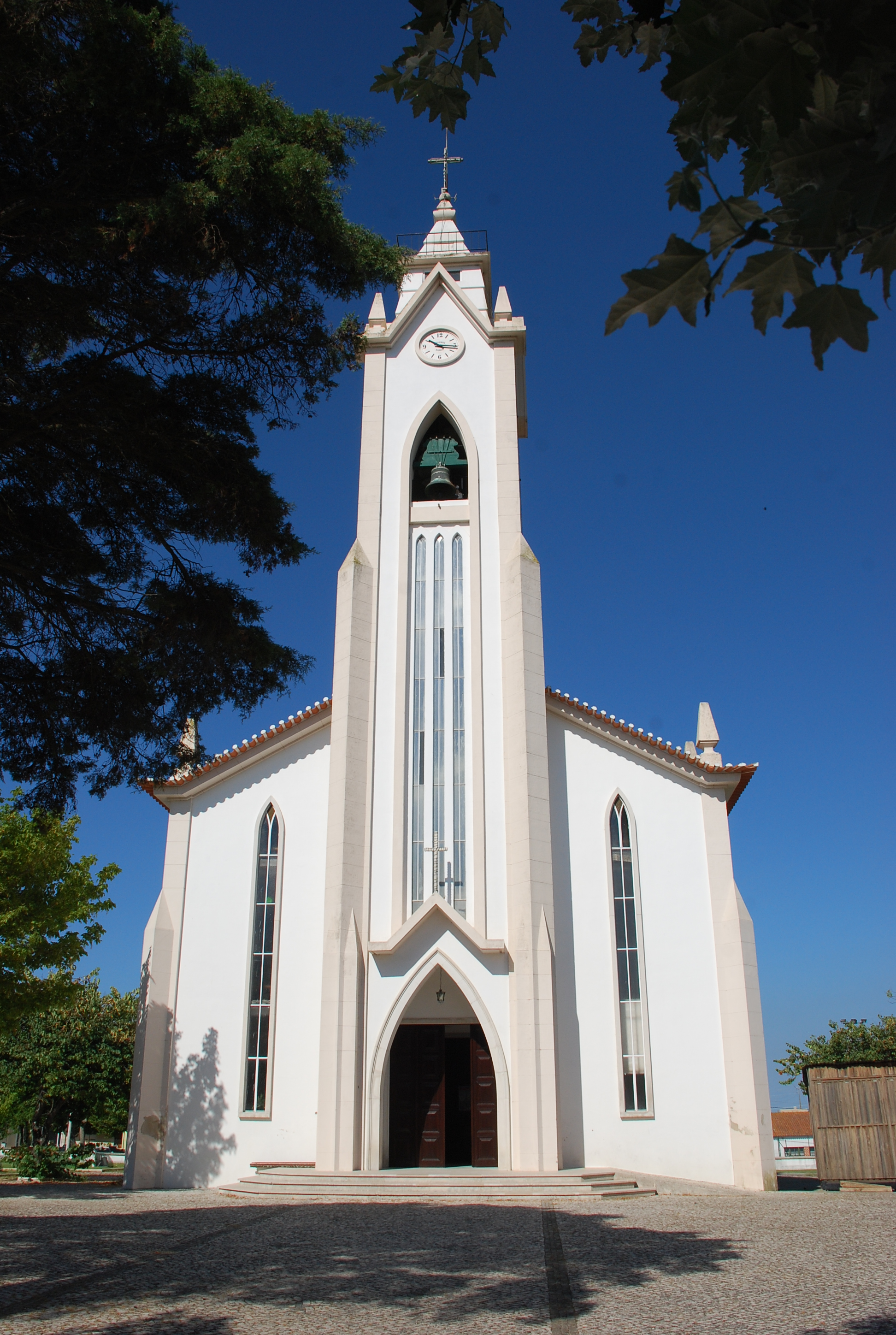 Igreja Paroquial da Nossa Senhora da Saúde